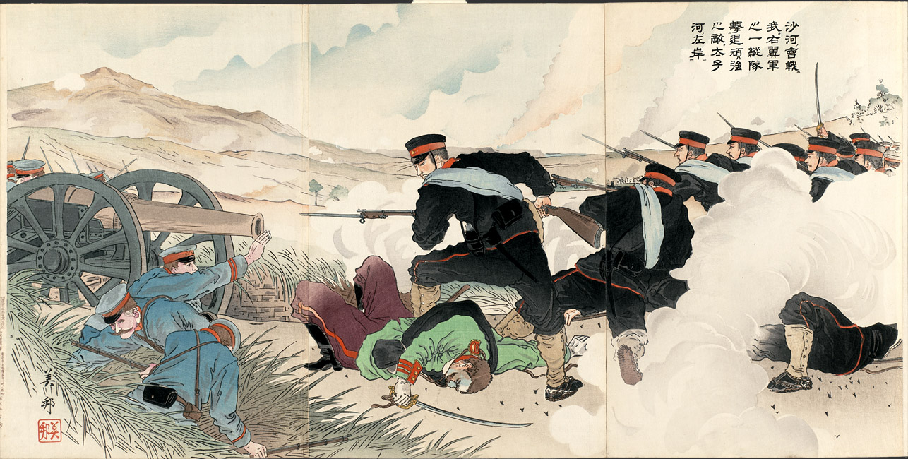 Woodblock tripich (ukiyoe nishiki-e) depicting combat during the Battle of Shaho, during the Russo-Japanse War. Labeled: "“In the Battle of the Sha River, a Company of Our Forces Drives a Strong Enemy Force to the Left Bank of the Taizi River”by Yoshikuni, November 1904